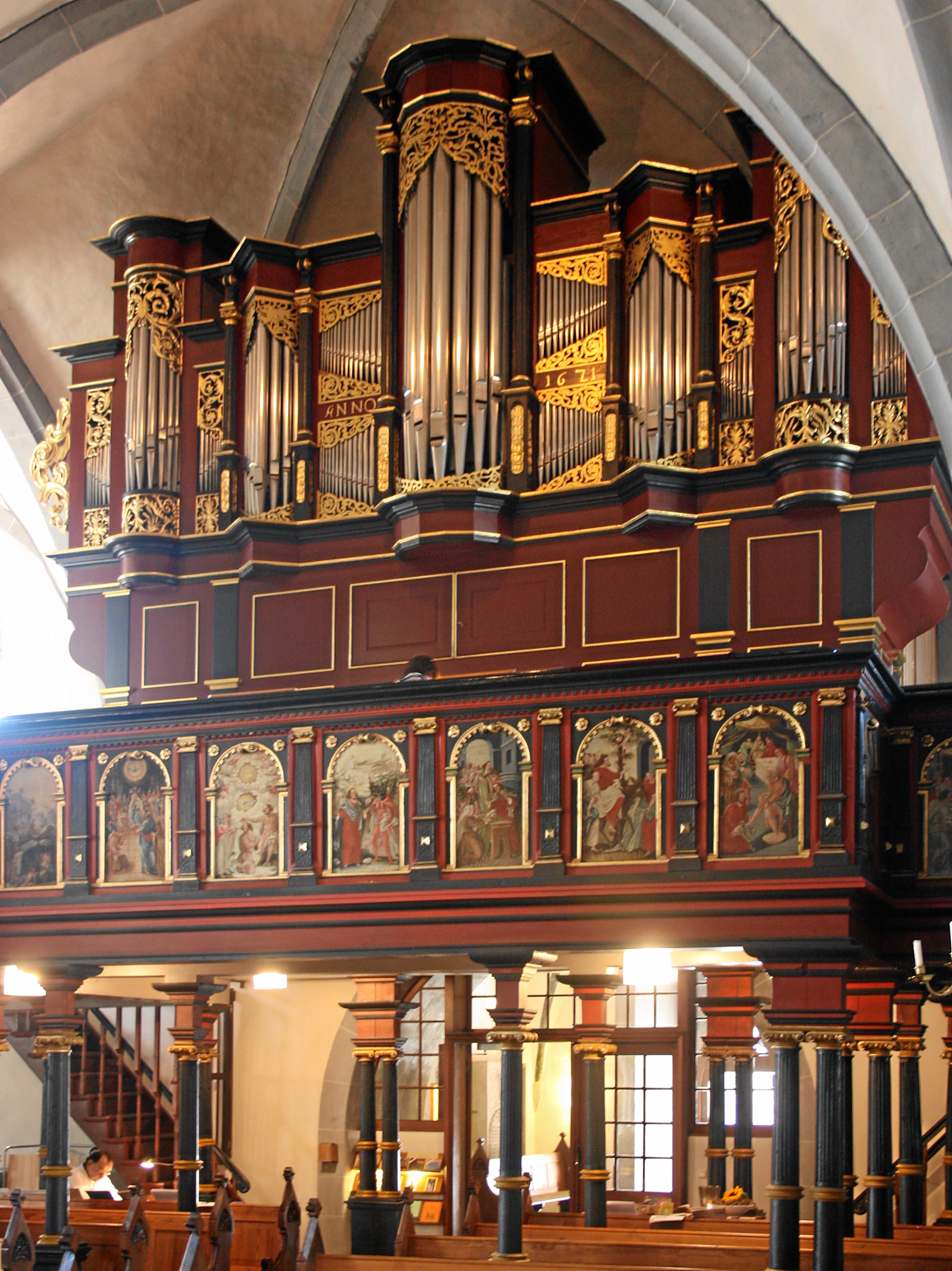 Rinteln, Germany. Evangelical-lutheran parish church Saint Nicolai, nave towards West with pipe organ.